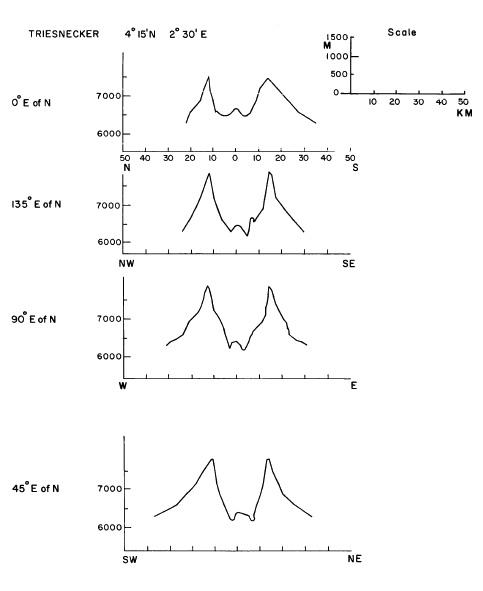 Triesnecker crater cross section